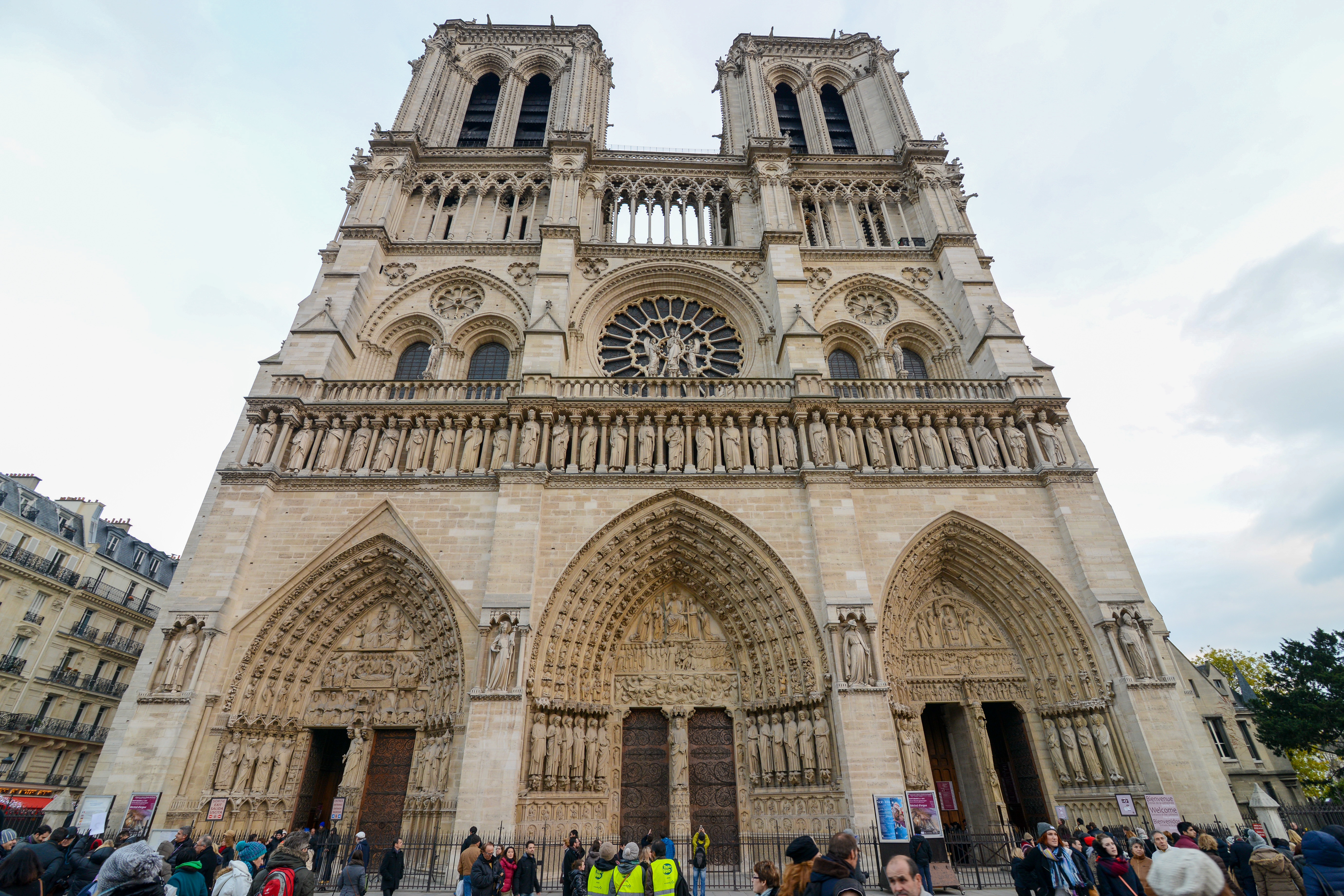 Notre-Dame de Paris(Our Lady of Paris), is a historic Catholic cathedral on the eastern half of the Île de la Cité in the fourth arrondissement of Paris. The cathedral is widely considered to be one of the finest examples of French Gothic architecture, and it is among the largest and most well-known church buildings in the world. The naturalism of its sculptures and stained glass are in contrast with earlier Romanesque architecture. As the cathedral of the Archdiocese of Paris, Notre-Dame is the parish that contains the cathedra, or official chair, of the archbishop of Paris. The cathedral treasury is notable for its reliquary which houses some of Catholicism's most important first-class relics including the purported Crown of Thorns, a fragment of the True Cross, and one of the Holy Nails. In the 1790s, Notre-Dame suffered desecration during the radical phase of the French Revolution when much of its religious imagery was damaged or destroyed. An extensive restoration supervised by Eugène Viollet-le-Duc began in 1845. A project of further restoration and maintenance began in 1991